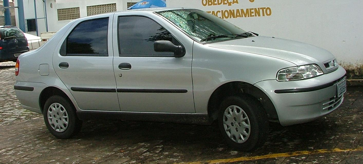 A metallic silver Fiat Siena. Photographed by Mário Oliveira Canossi, on July 23, 2005.